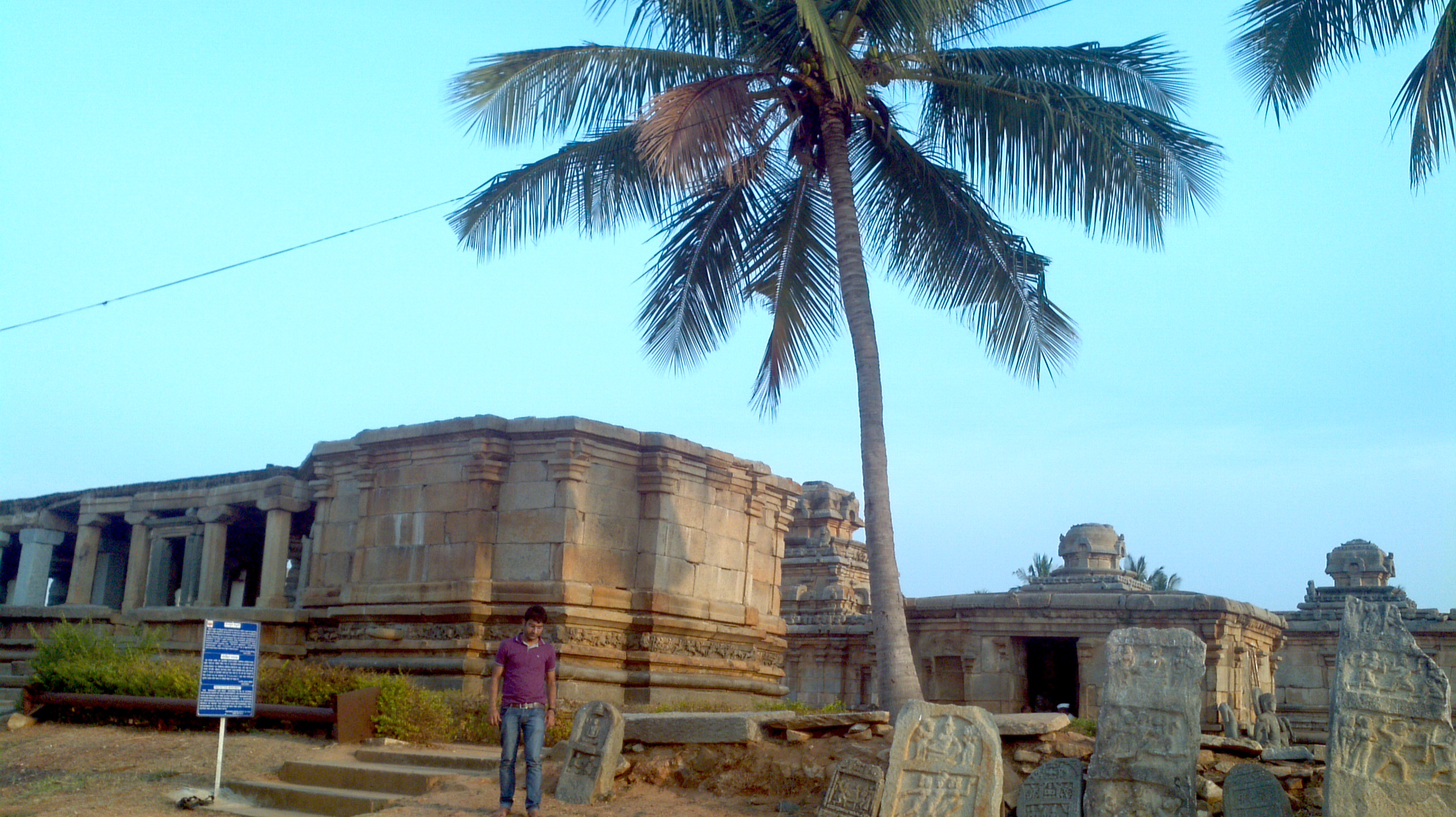 There are 6 temples in this village, located 18 KM from sravanbelgola.This temple is more then 2000 year old.